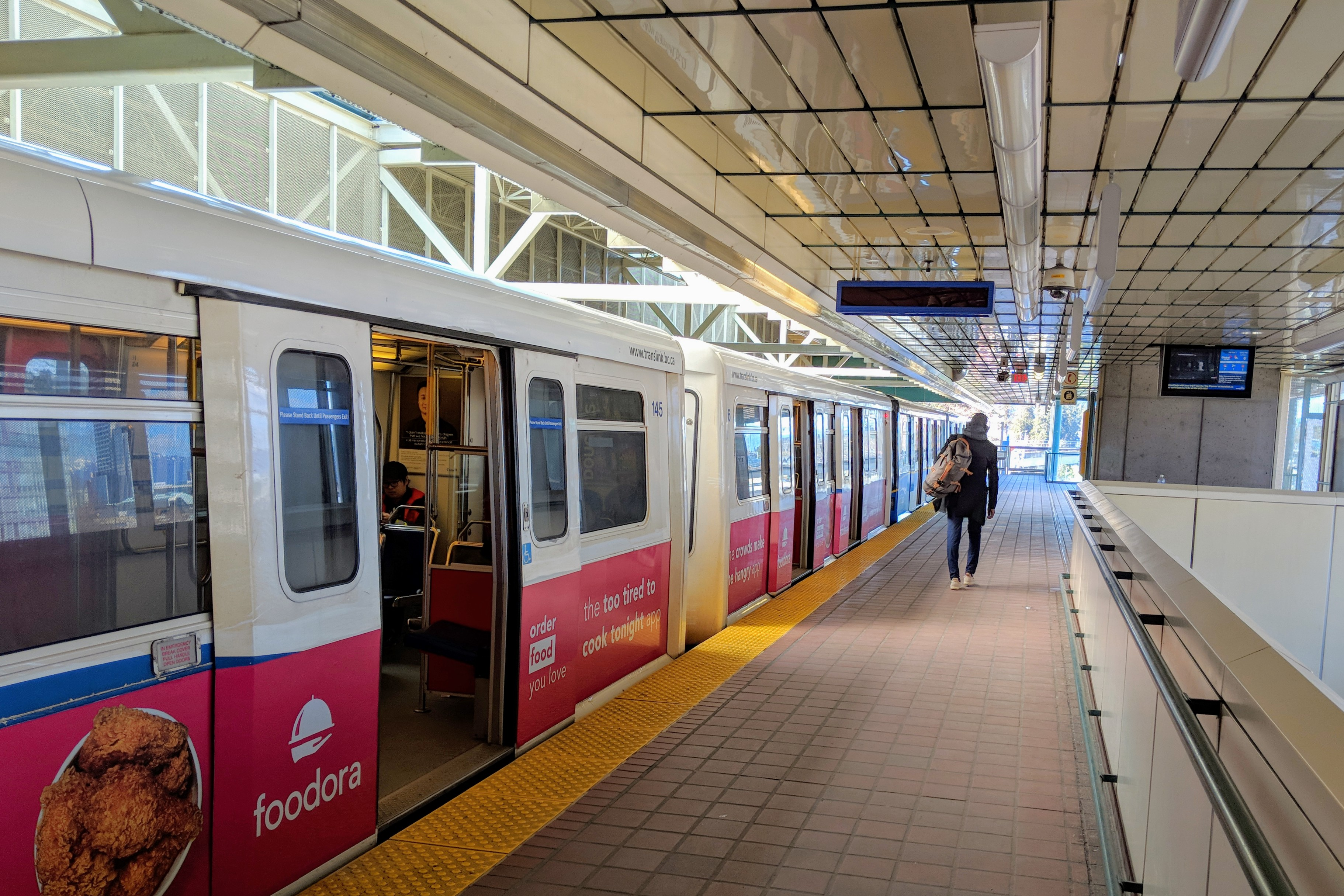 Platform level at King George station. A westbound train is set to begin service to Waterfront station in Downtown Vancouver.